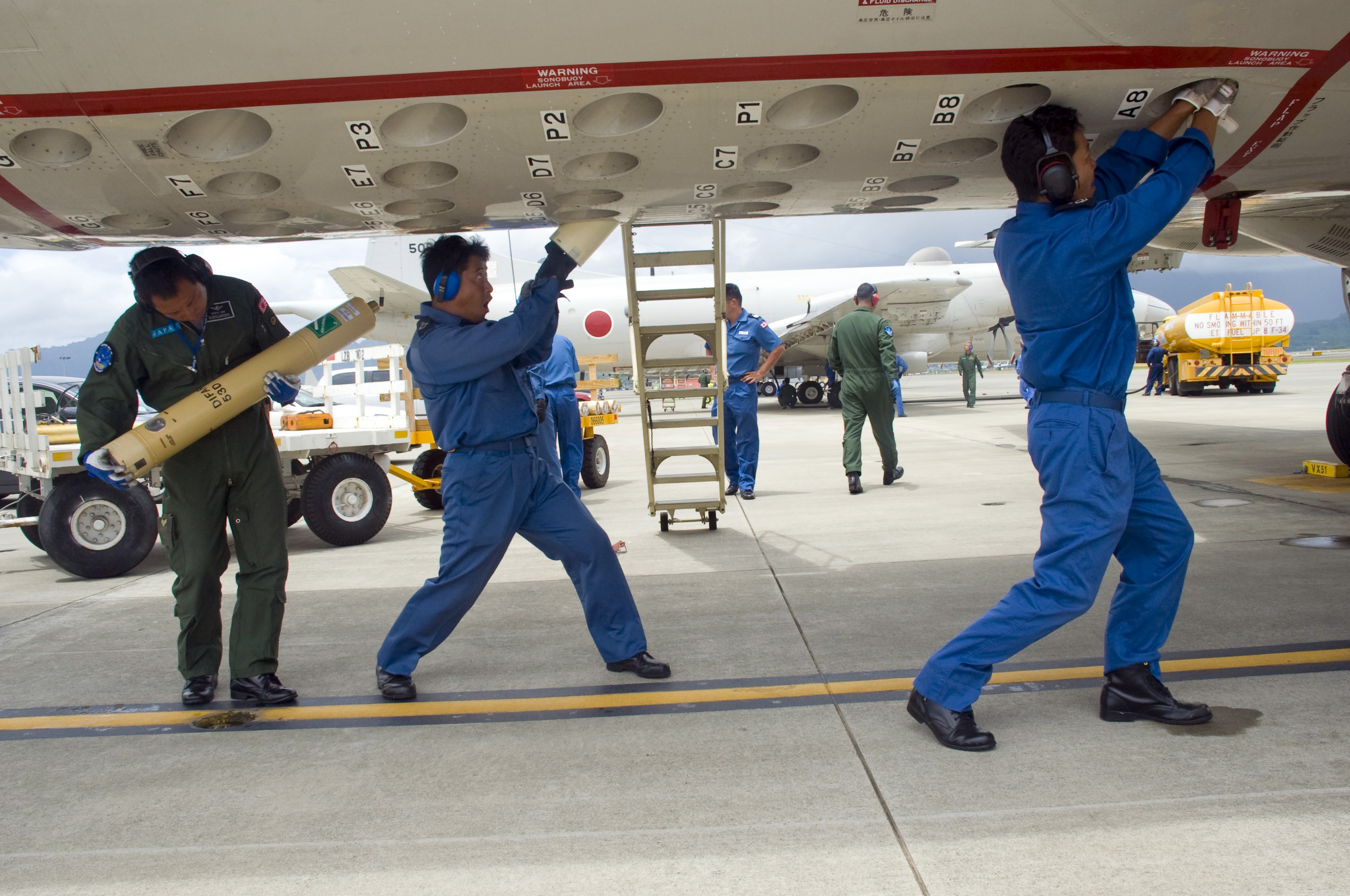 PEARL HARBOR, Hawaii (July 24, 2008) Japanese airmen load sonobuoys into the tail of a P-3 Orion during Rim of the Pacific (RIMPAC) 2008. RIMPAC is the world's largest multinational exercise and is scheduled biennially by the U.S. Pacific Fleet. Participants include the United States, Australia, Chile, Canada, Japan, the Netherlands, Peru, South Korea, Singapore and the United Kingdom. (U.S. Navy photo by Mass Communication Specialist 1st Class Kirk Worley/Released)